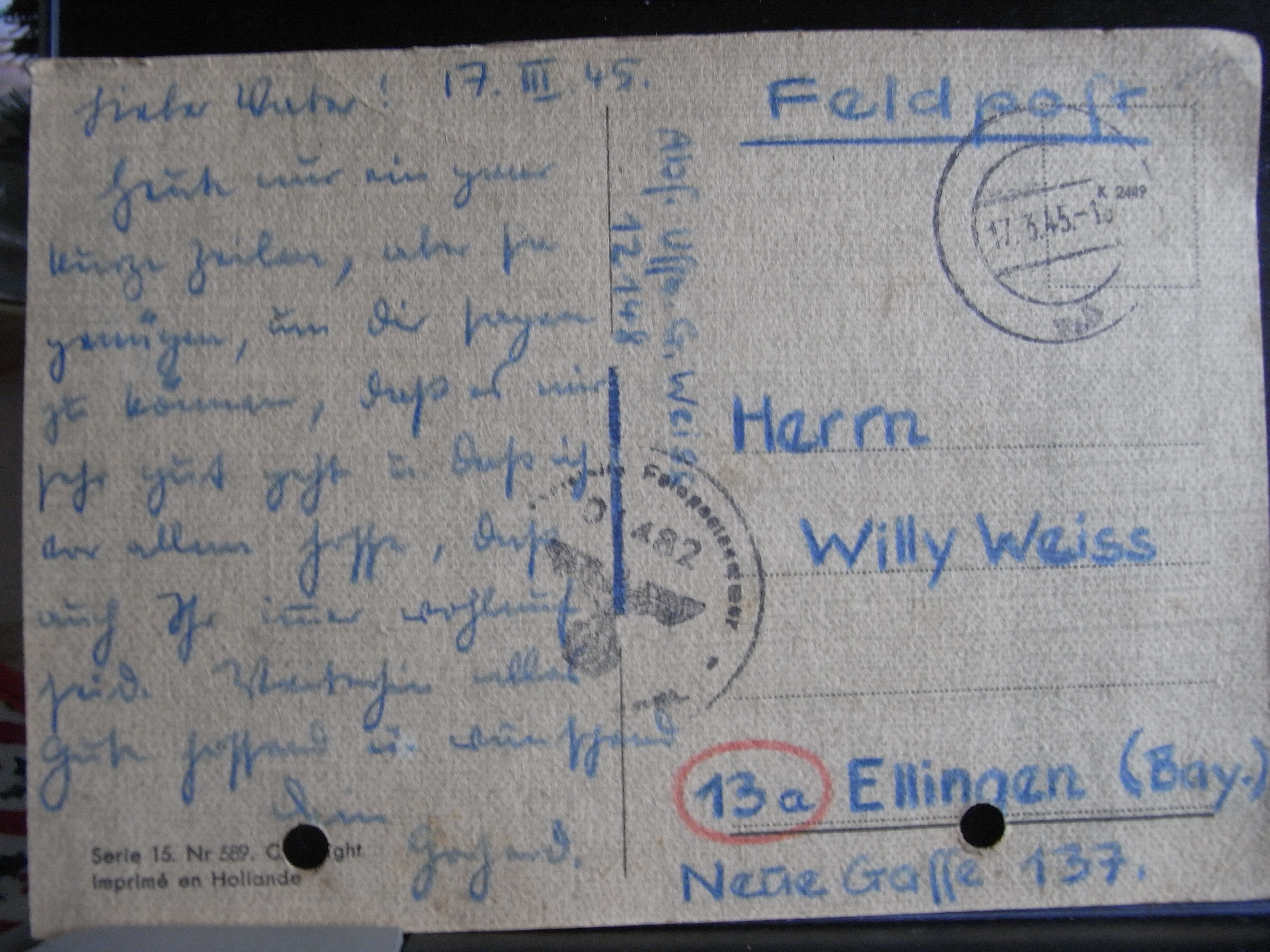 Military letter from 17 March 1945, German army soldier (Wehrmacht)